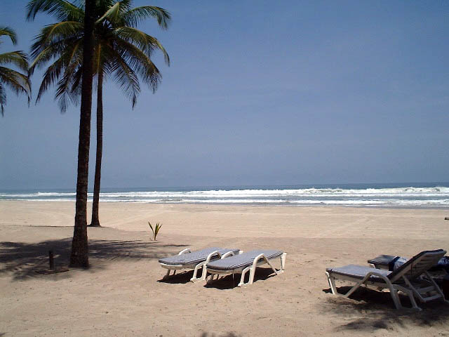 Beach in Assinie, of Côte d'Ivoire.